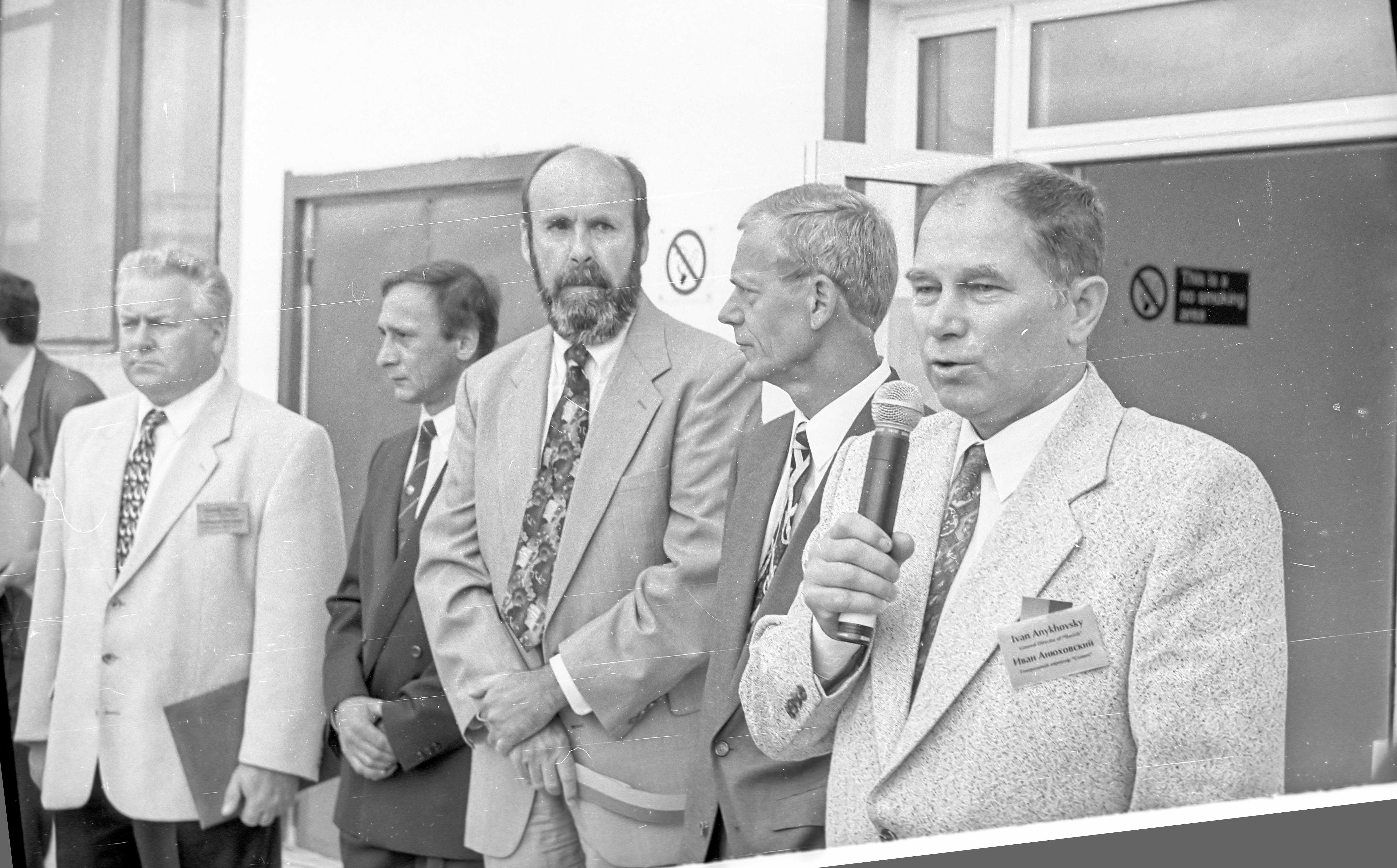 On August 12, 1997, the company «Kodak» has opened the workshop for the color photographic papers and processing solutions at the «Slavich» plant in Pereslavl. From left to right on the podium: Yaroslavl Governor Anatoly Lisitsyn, Pereslavl Mayor Eugene Melnik, General Director of «Kodak A/O» Thomas Dale Garman, vice-president of «Kodak» Matthias Freund, chairman of the board of directors of «Slavich Company» Ivan Philipovich Anyuhovsky.